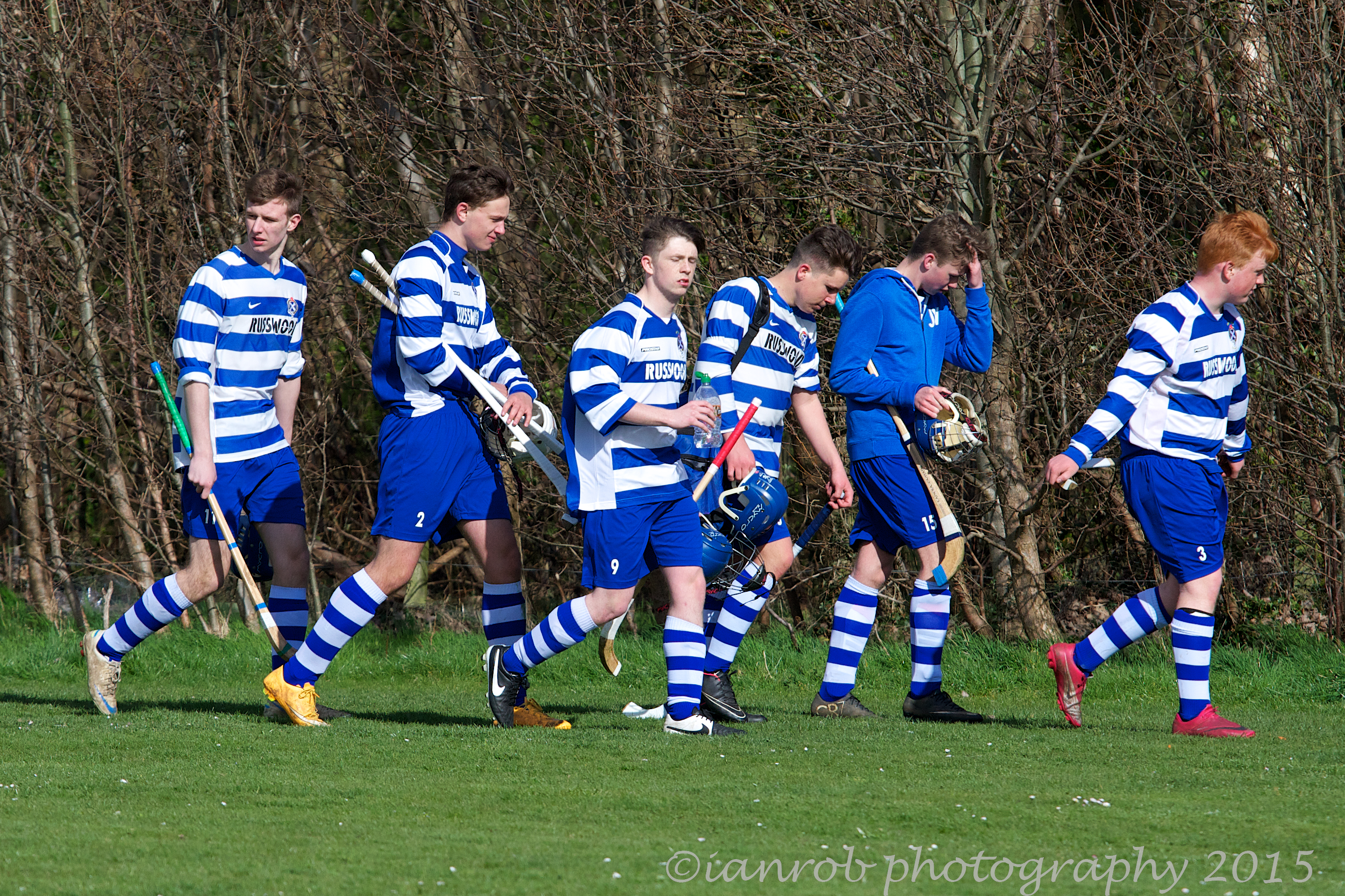 Aberdein Considine Sutherland Cup 2015 Round 1